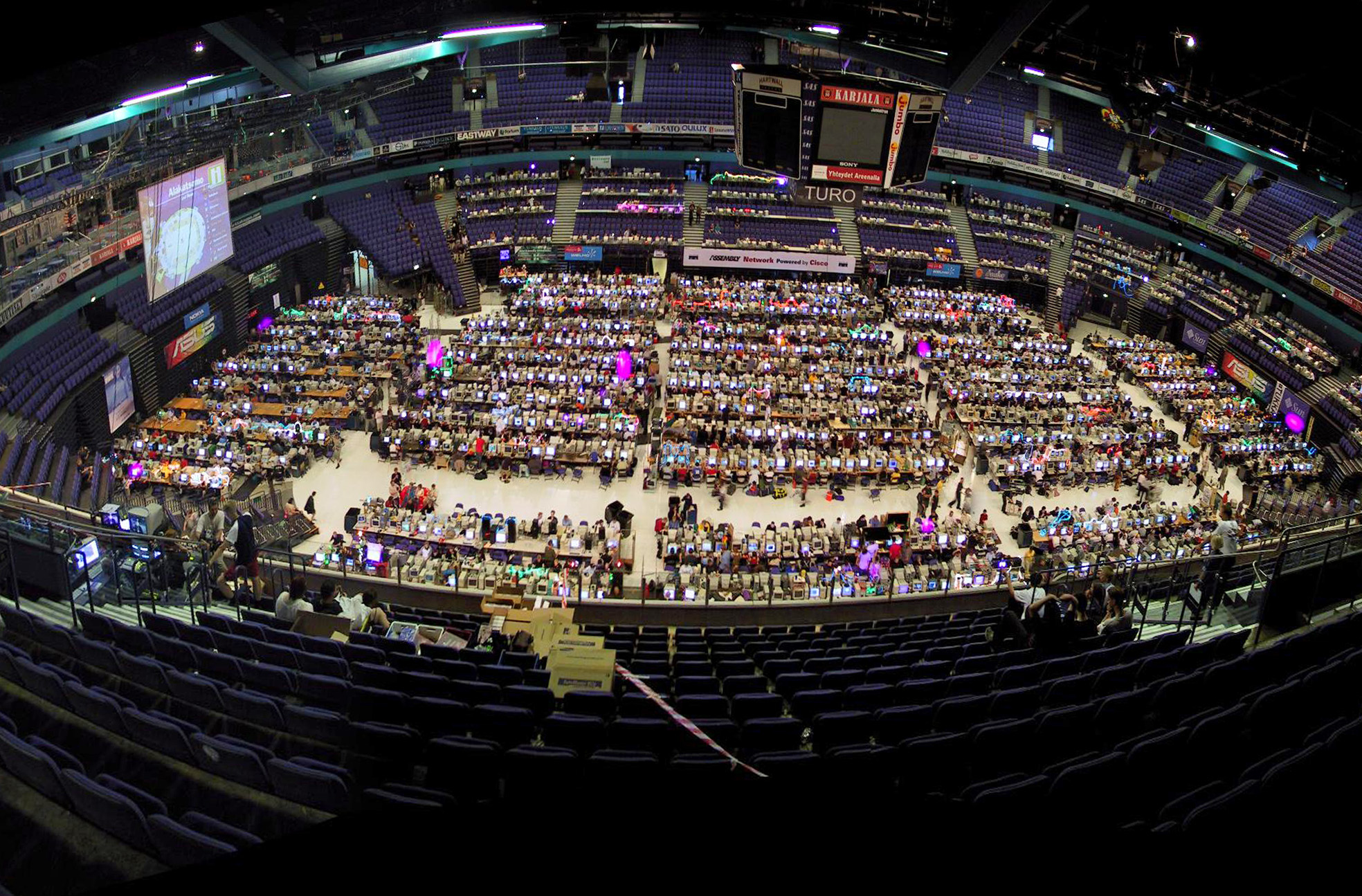 Assembly demo party in Helsinki in 2002